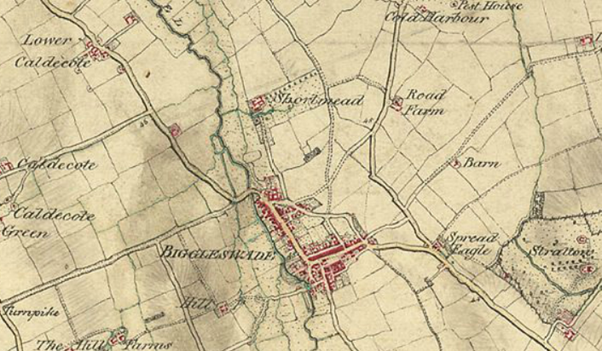 Ordnance Survey Map of Biggleswade 1804